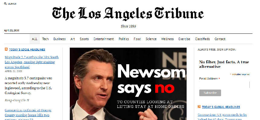 A still frame capture of the front page of The Los Angeles Tribune daily newspaper dated April 22, 2020.